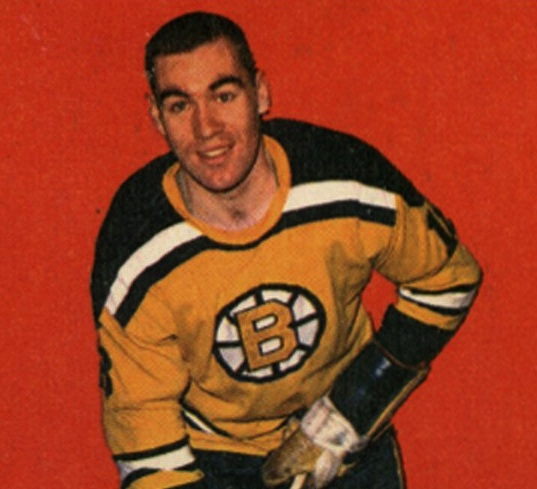 Ed Westfall